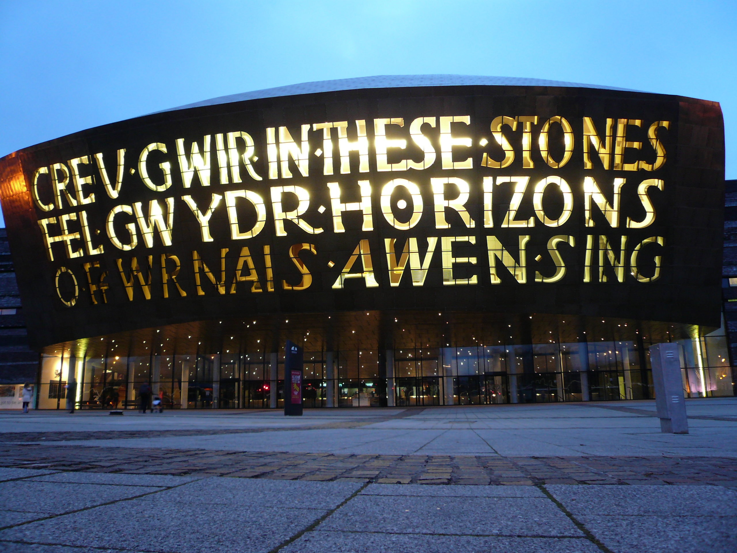 "It (the Wales Millennium Centre) has two theaters and is home to seven companies, headed by the Welsh National Opera. The gleaming gold-roofed structure has mauve slate paneling and was designed by Welsh architect Jonathan Adam." -Lonely Planet "Great Britain" 6th ed.